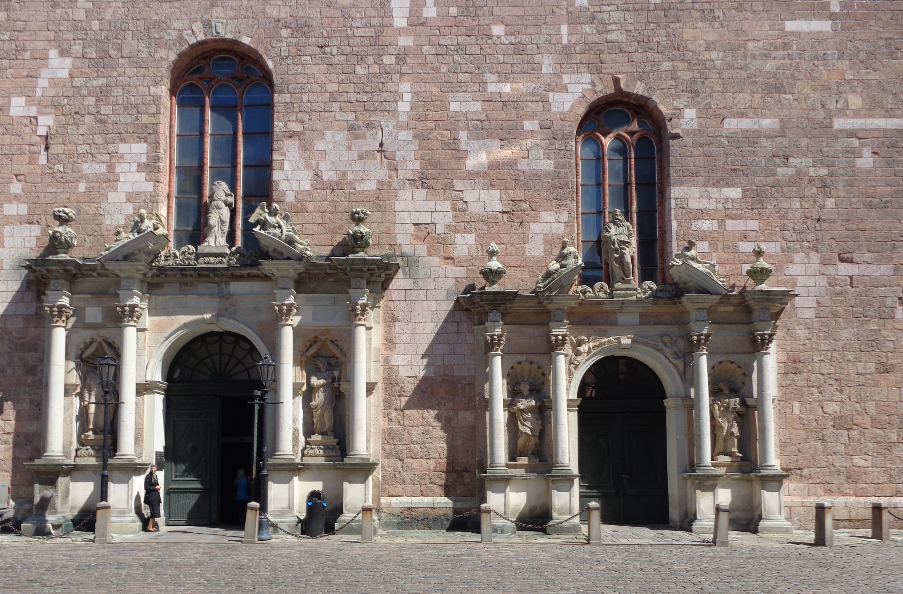 Two of the three gates of the St. Peter's Church, Riga